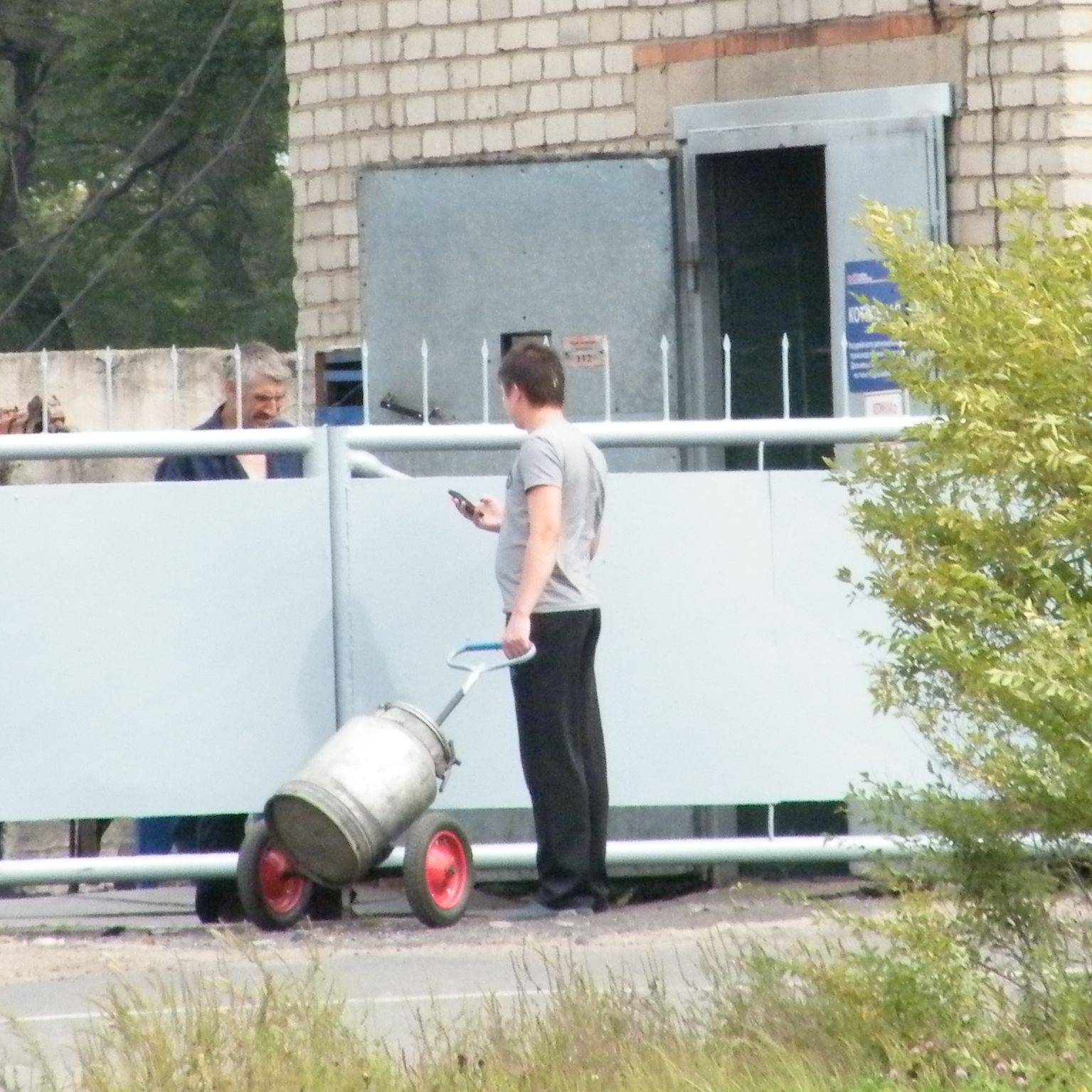 Milk cans